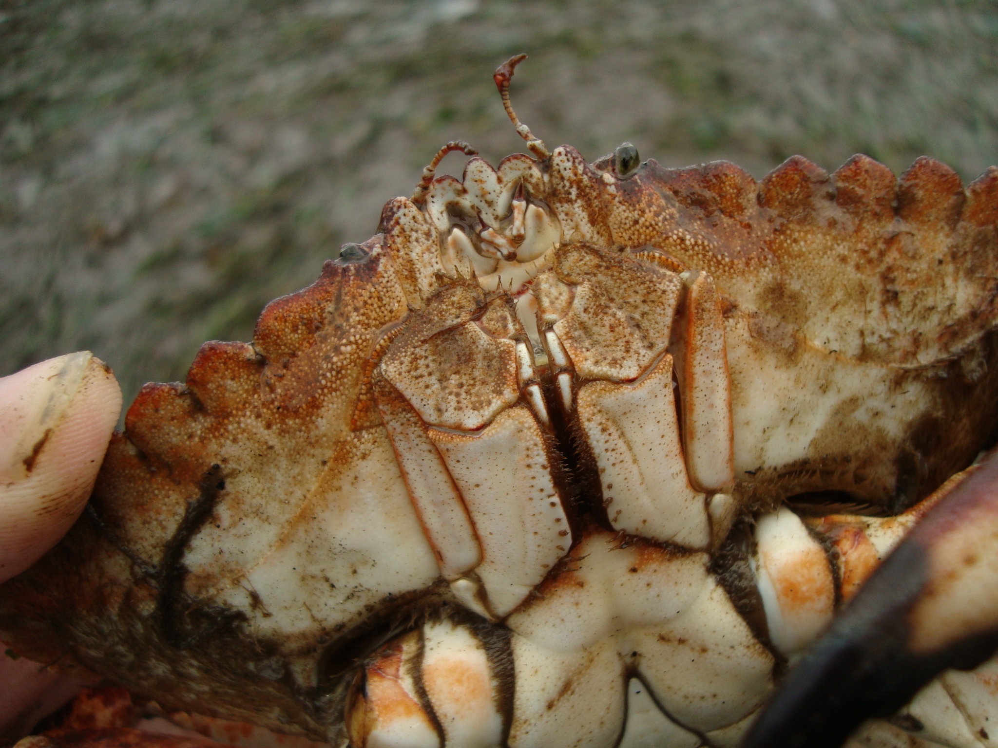 A macro of Cancer productus, showing detail of the mouth parts.